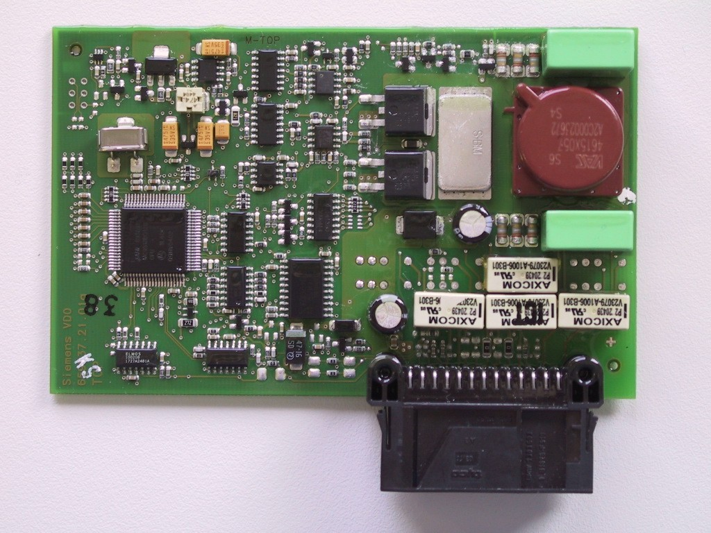 Keyless-Entry/Keyless-Go ECU (Electronic Control Unit) by Siemens VDO